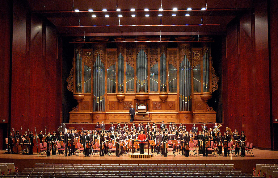 Apo Hsu and the NTNU Symphony Orchestra (National Taiwan Normal University) on stage at the National Concert Hall. (Taipei, Taiwan)